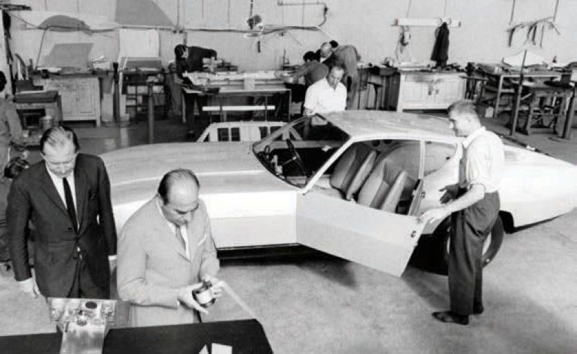 Nuccio Bertone (in front, reading a book) and the Jaguar Pirana concept that was shown in 1967. Its design (by Gandini) inspired the Lamborghini Espada released a year or two later.